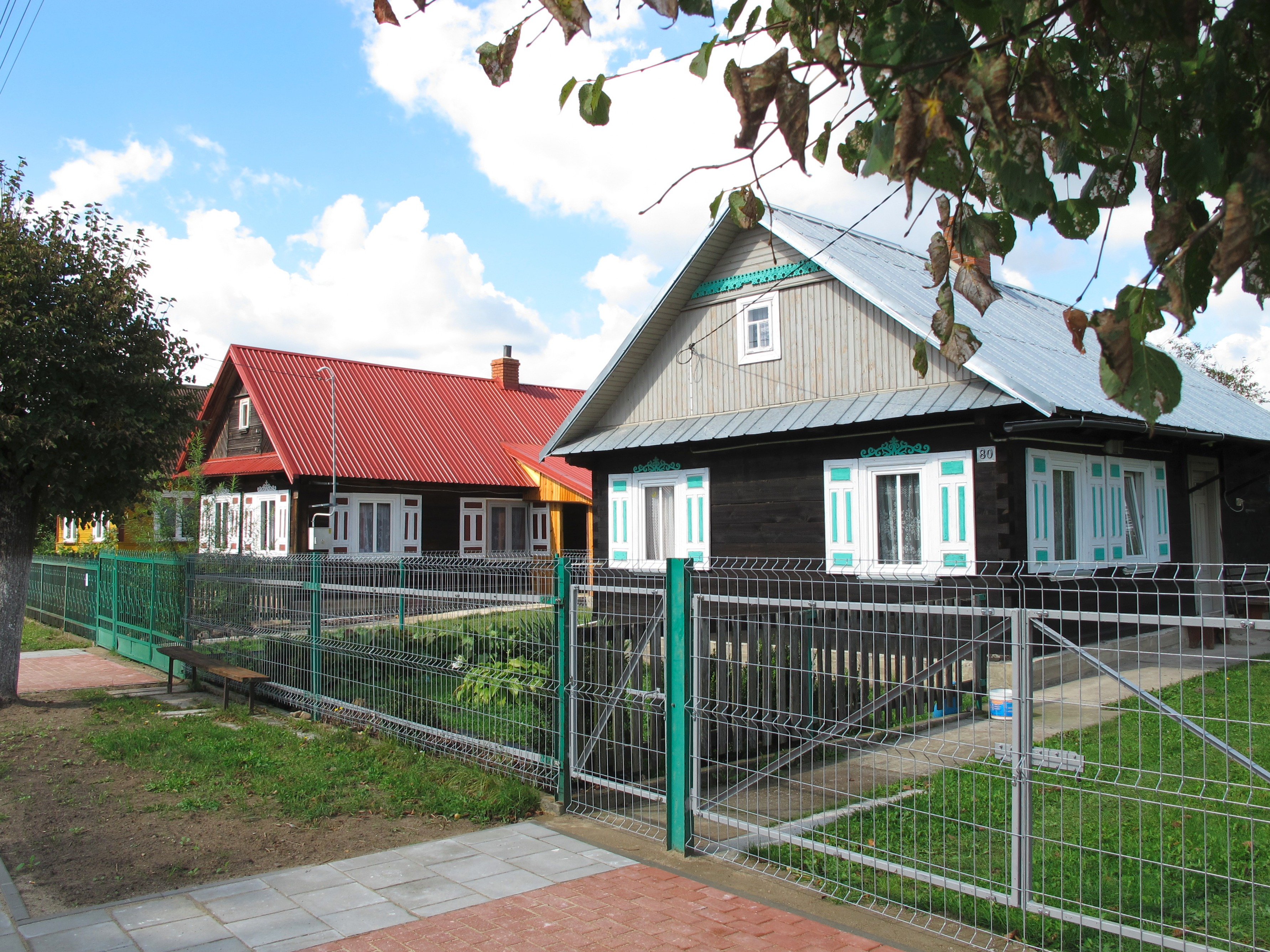 House in Trześcianka, gmina Narew, podlaskie, Poland